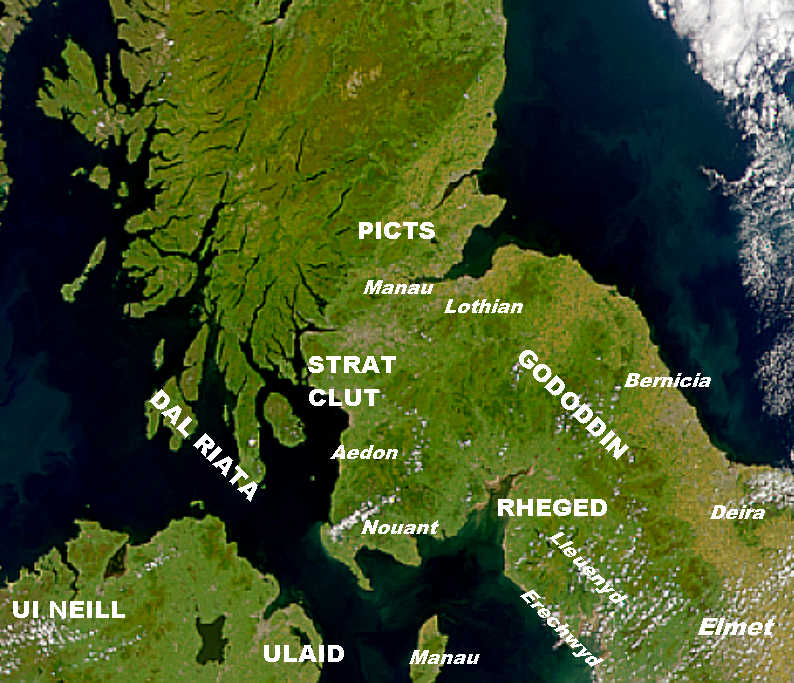 Released under the GFDL: created using GIMP/Open Office Draw and original sat image from NASA using map on p. 200 of John T. Koch's paper "The Place of the Y Gododdin in the History of Scotland" as a guide. Koch, John T (1997), “The Place of the Y Gododdin in the History of Scotland”, in Celtic Connections: Proceedings of the Tenth International Congress of Celtic Studies, Black, edited by Ronald; Gillies, William; Maolalaigh, Roibeard[1], volume 1, East Lothian, Scotland: Tuckwell Press, ISBN 978-1898410775, OCLC 174646993 226189716 60704934, pages 199–210